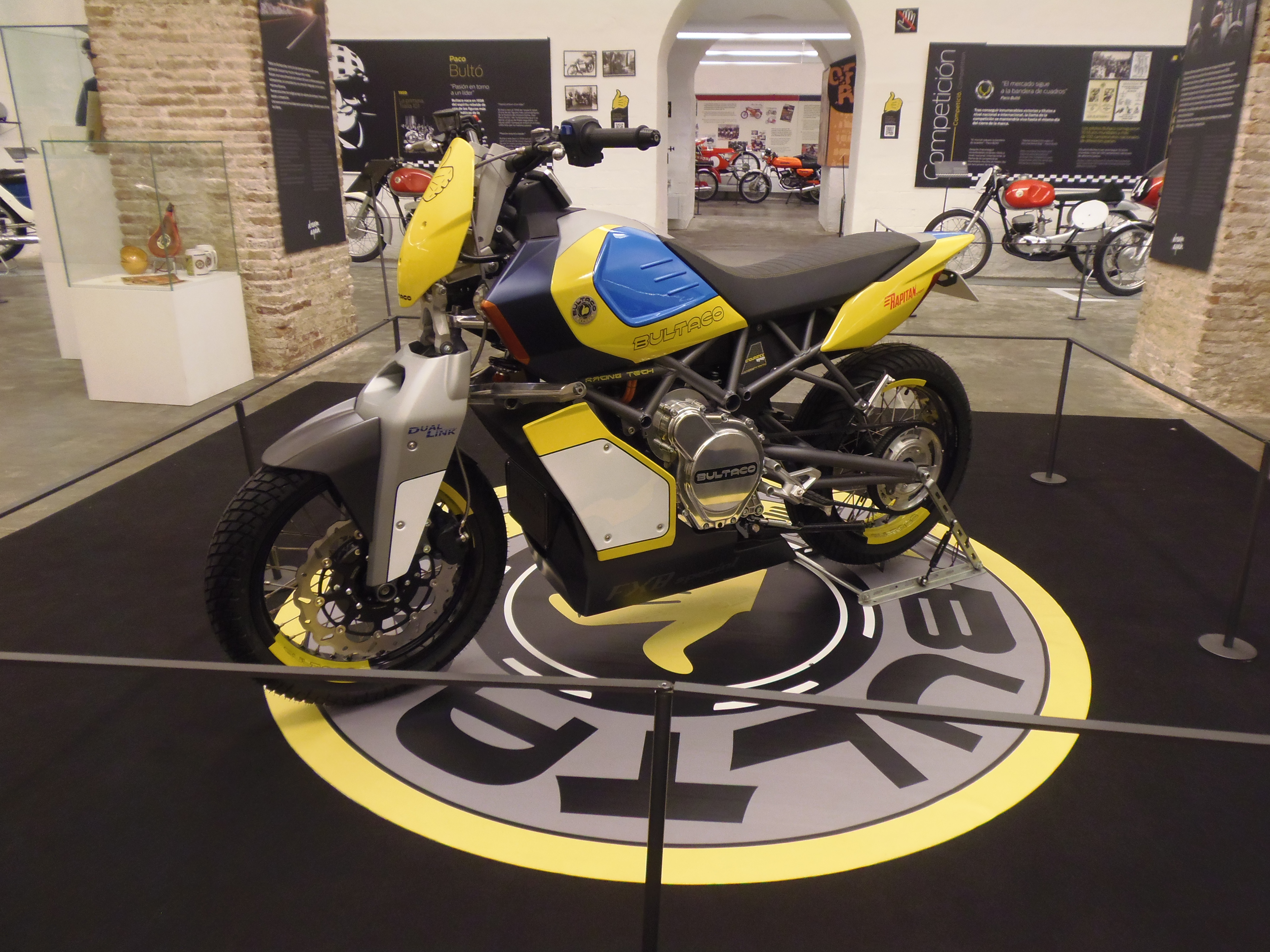 Bultaco Rapitan Sport, 2014. It has a futuristic, 100% electric bike system that develops a great acceleration and maximizes range by recovering and accumulating more braking energy than any other electric bike. It will be distributed in 2015.